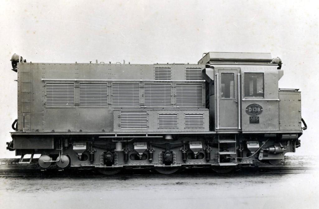 SAR Class DS1 no. D138, later renumbered to D514.